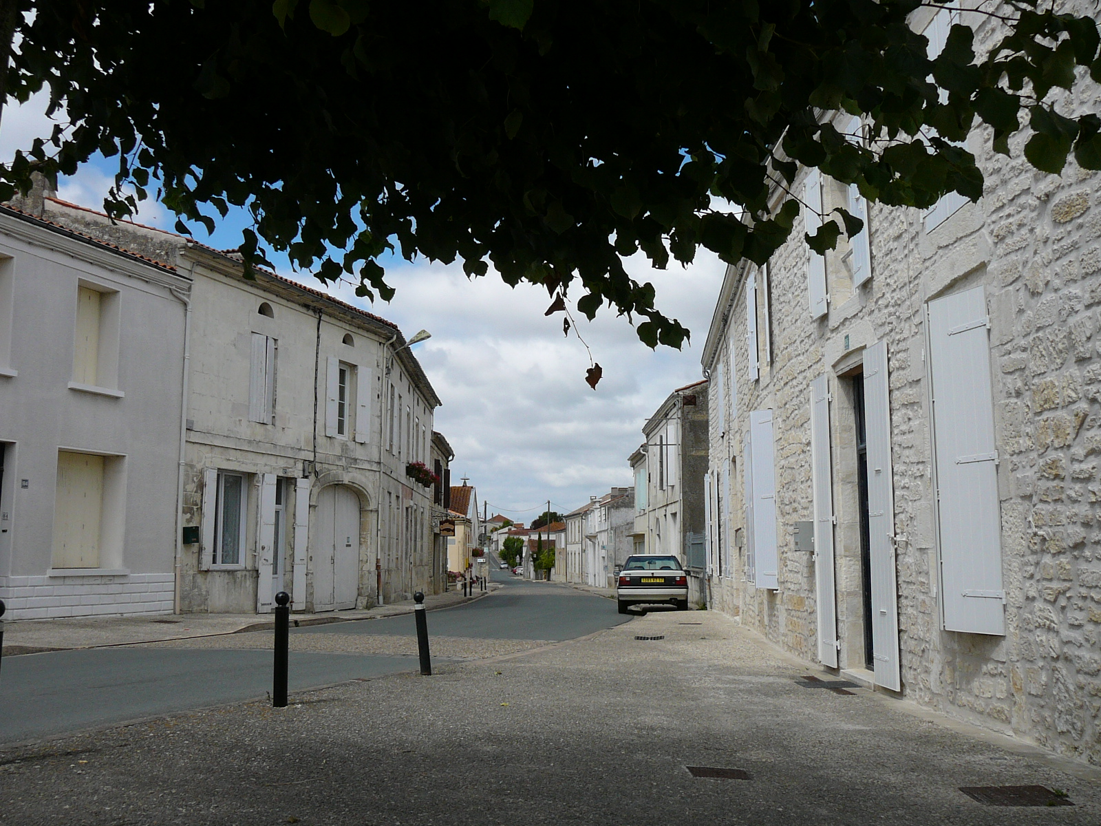 Main street in Saint-Agnant. Charente-Maritime (17), Poitou-Charentes, France, Europe.